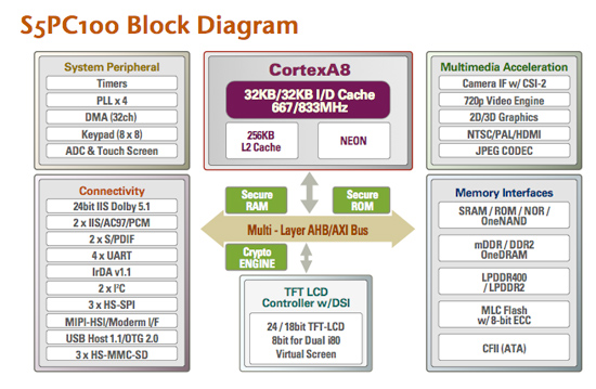 Samsung S5L8920 (iPhone 3GS)